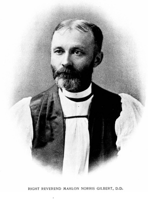 The Rt. Rev. Mahlon Gilbert, from Perry, William Stevens. The bishops of the American church, past and present. Sketches, biographical and bibliographical, of the bishops of the American Church. With a preliminary essay on the historic episcopate and documentary annals of the introduction of the Anglican line of succession into America. New York: The Christian Literature Co, 1897